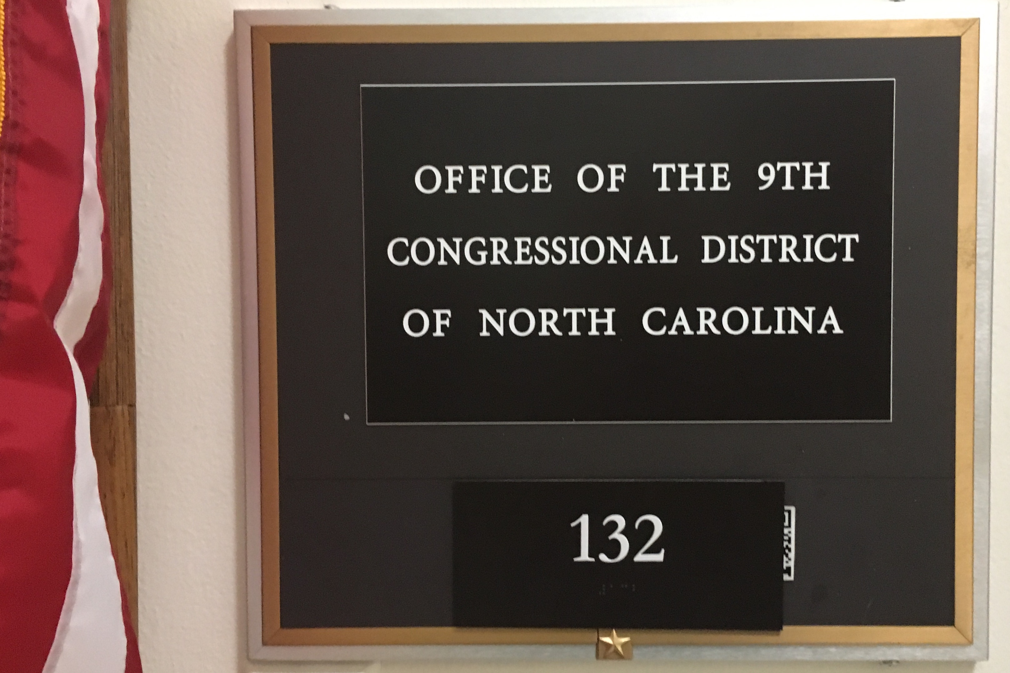 Nameplate in House of Reps office building after the disputed 2018 North Carolina's 9th congressional district election